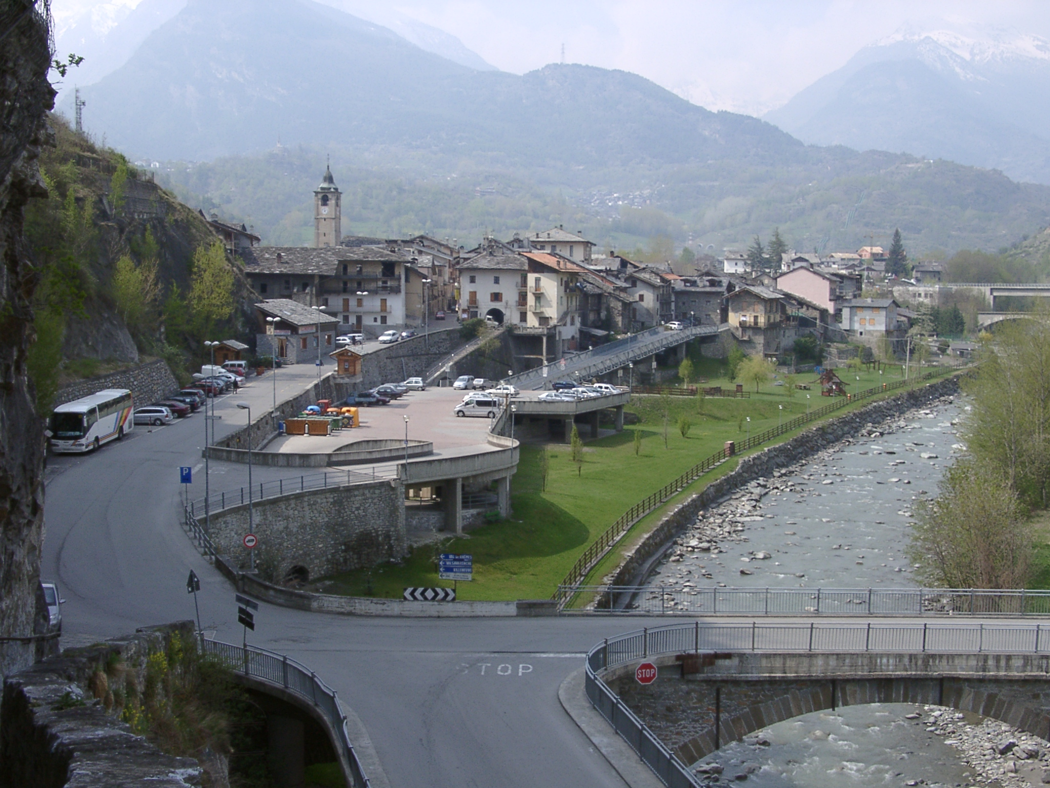 Villeneuve - Aosta Valley - Italy - Photo take by Perrier Valter